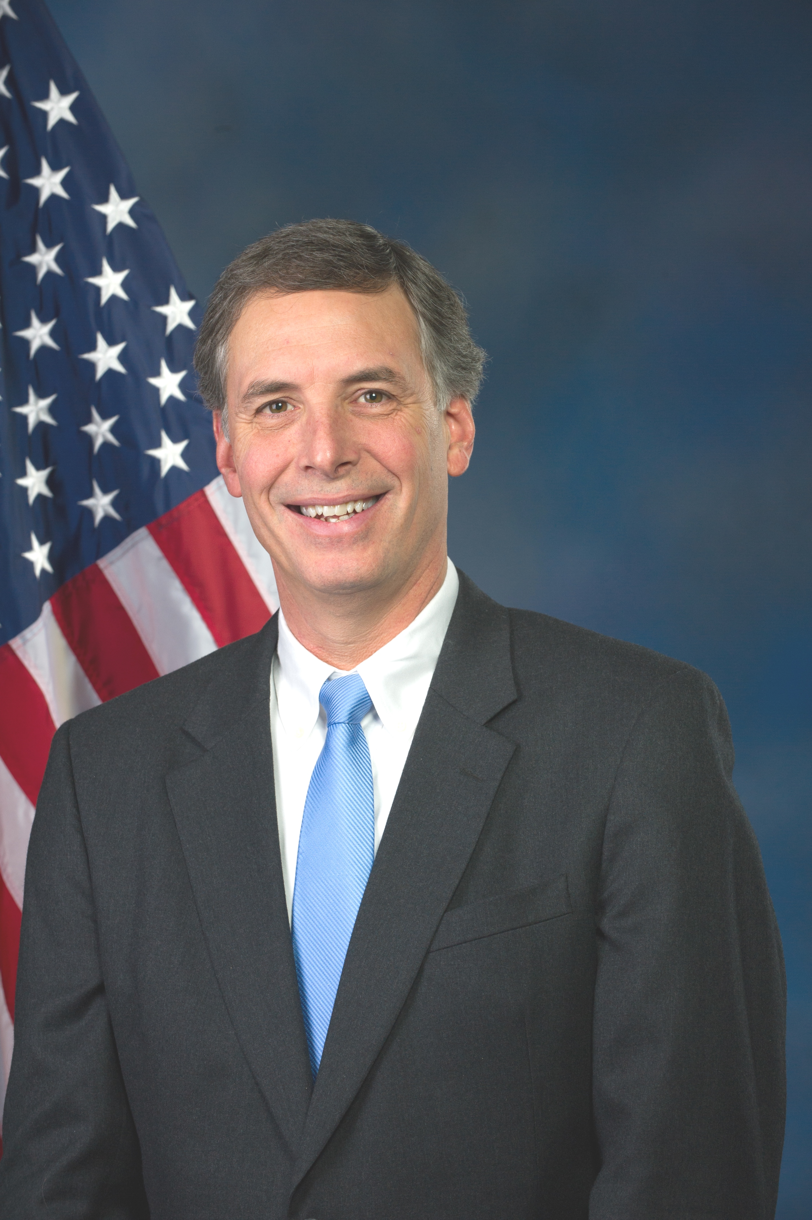 Official portrait of US Congressman Tom Rice